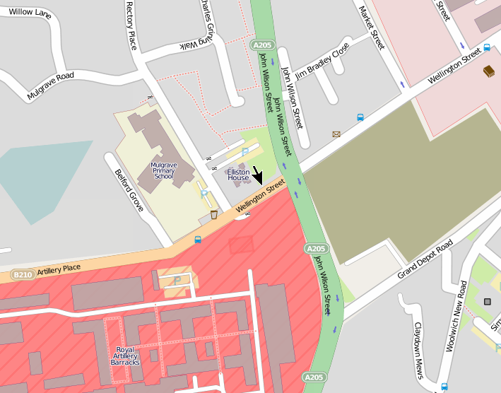 Location of 2013 Woolwich attack, created using OpenStreetMap data The location of the incident is marked with an arrow in the centre. Elliston House is a tower block. The incident took place in Wellington Street near the junction with John Wilson Street. The site of the attack is on the perimeter of the Royal Artillery Barracks. The image on the right shows Elliston House, and the road sign into which the car crashed during the attack. Map co-ordinates: 51°29′19″N 0°03′45″E / 51.4885°N 0.06255°E Google Street View is here.